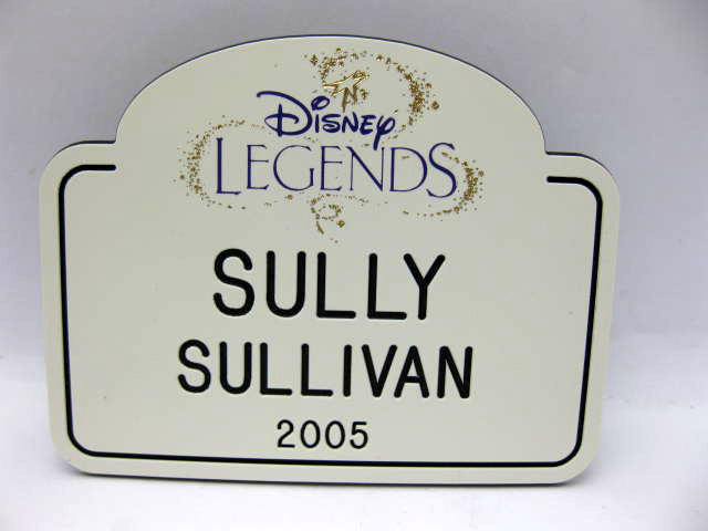 The nametag worn by recipients of the Disney Legend award.